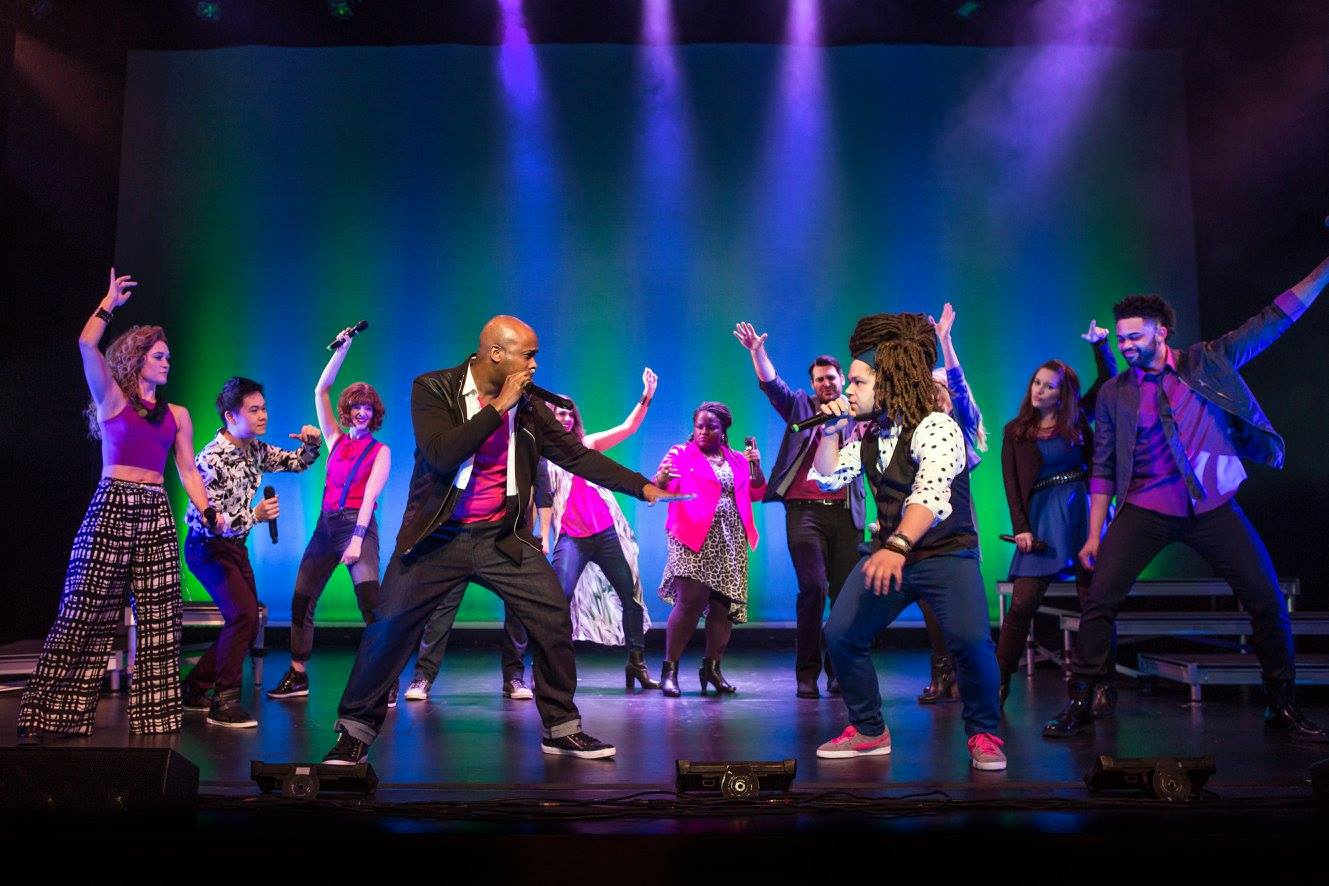 Vocalosity, first tour, second act beat box battle between Chesney Snow and Tracy Robertson